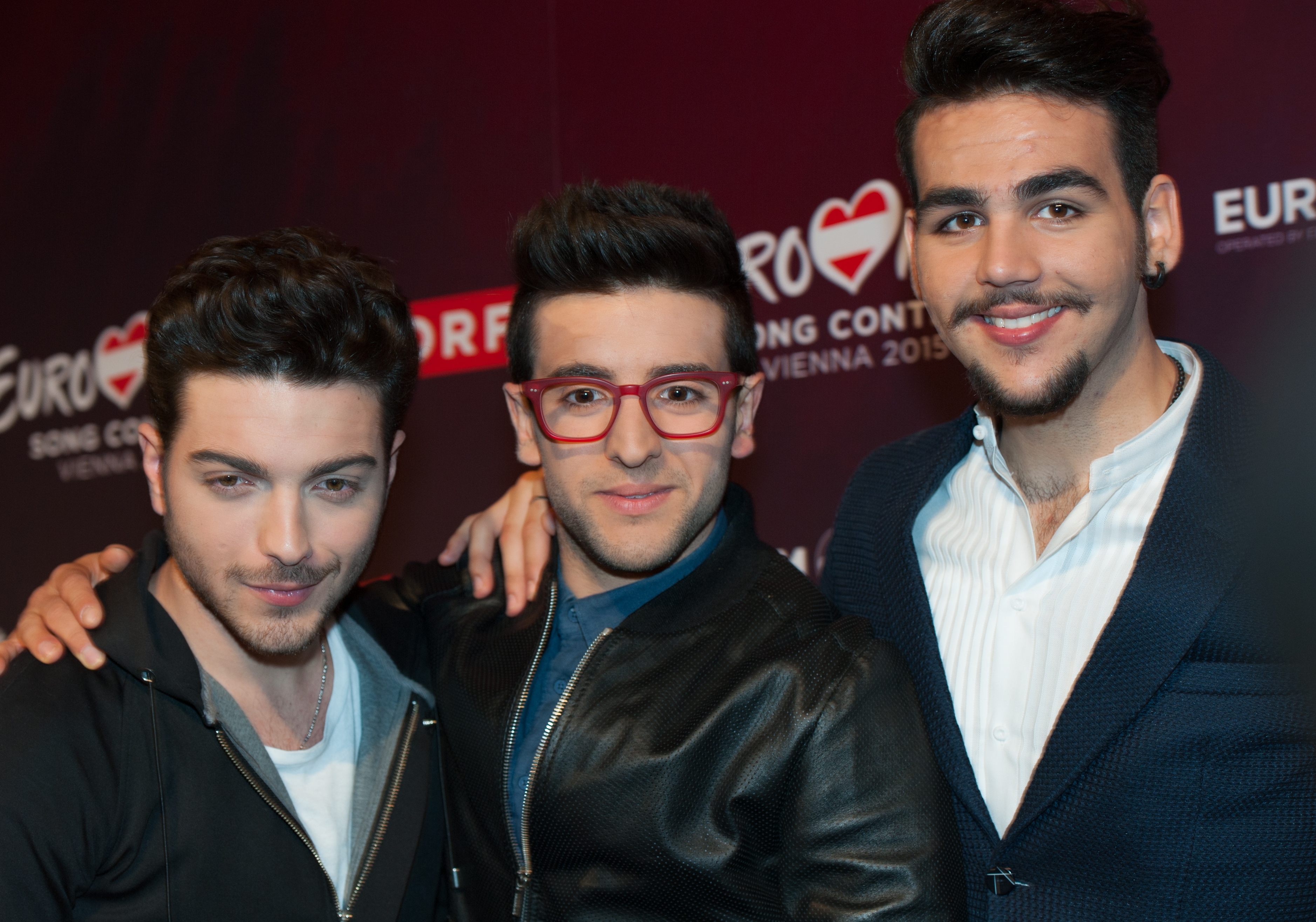 Eurovision Song Contest Vienna 2015: Il Volo (Gianluca Ginoble, Piero Barone, Ignazio Boschetto)